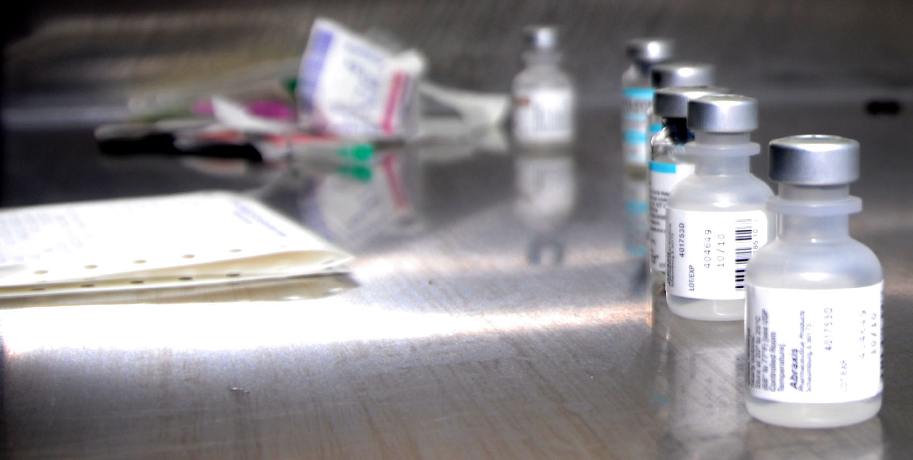 PORT-AU-PRINCE, Haiti (Feb. 12, 2010) Bottles of acyclovir and sterile water sit at the intravenous fluid mixing station in the pharmacy aboard the Military Sealift Command hospital ship USNS Comfort (T-AH 20). Comfort is conducting humanitarian and disaster relief operations as part of Operation Unified Response after a 7.0 magnitude earthquake caused severe damage in and around Port-au-Prince, Haiti Jan. 12. (U.S. Navy photo by Mass Communication Specialist 2nd Class Shannon Warner/Released)